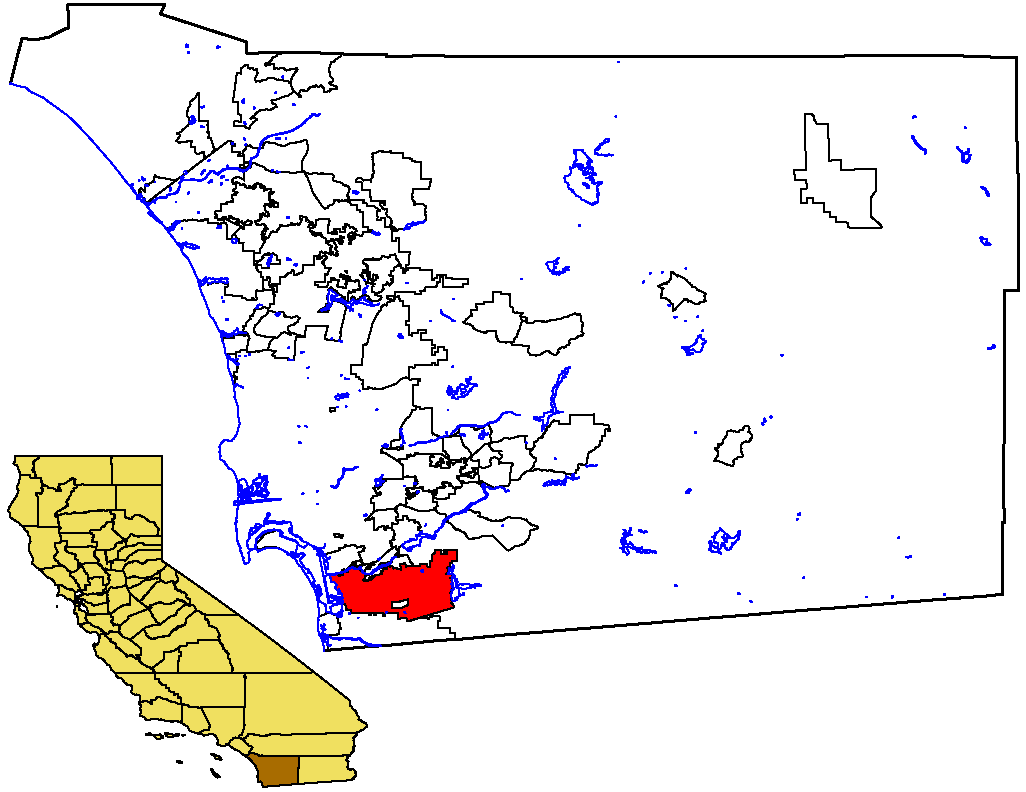 Map of the City of Chula Vista within San Diego County, with County highlighted in California. Category:California city locator maps